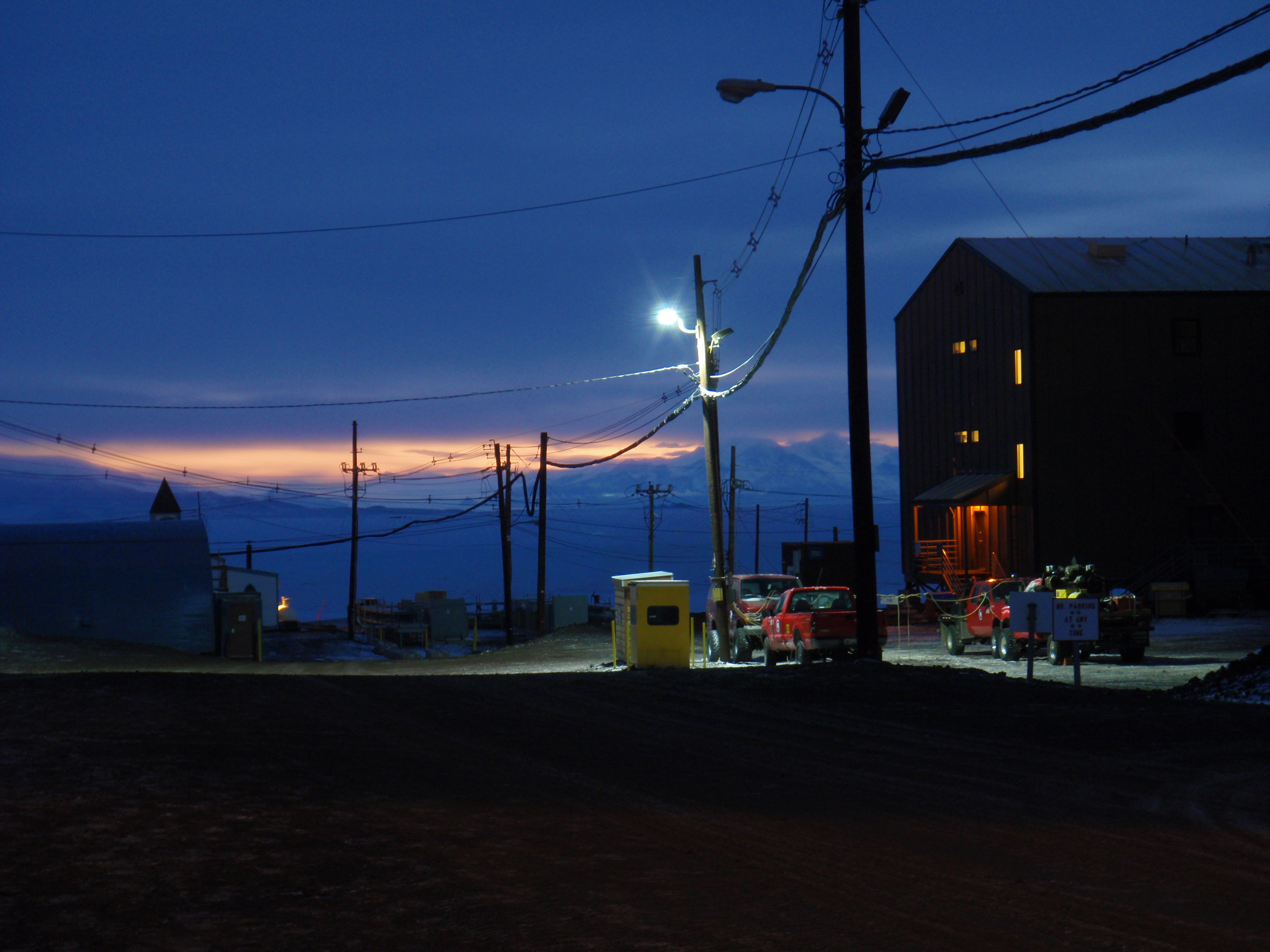 The Royal Society Range in Antarctica, as seen from McMurdo Station around Sunset, while the sun was still bright on these mountains but the skies were dark at McMurdo.